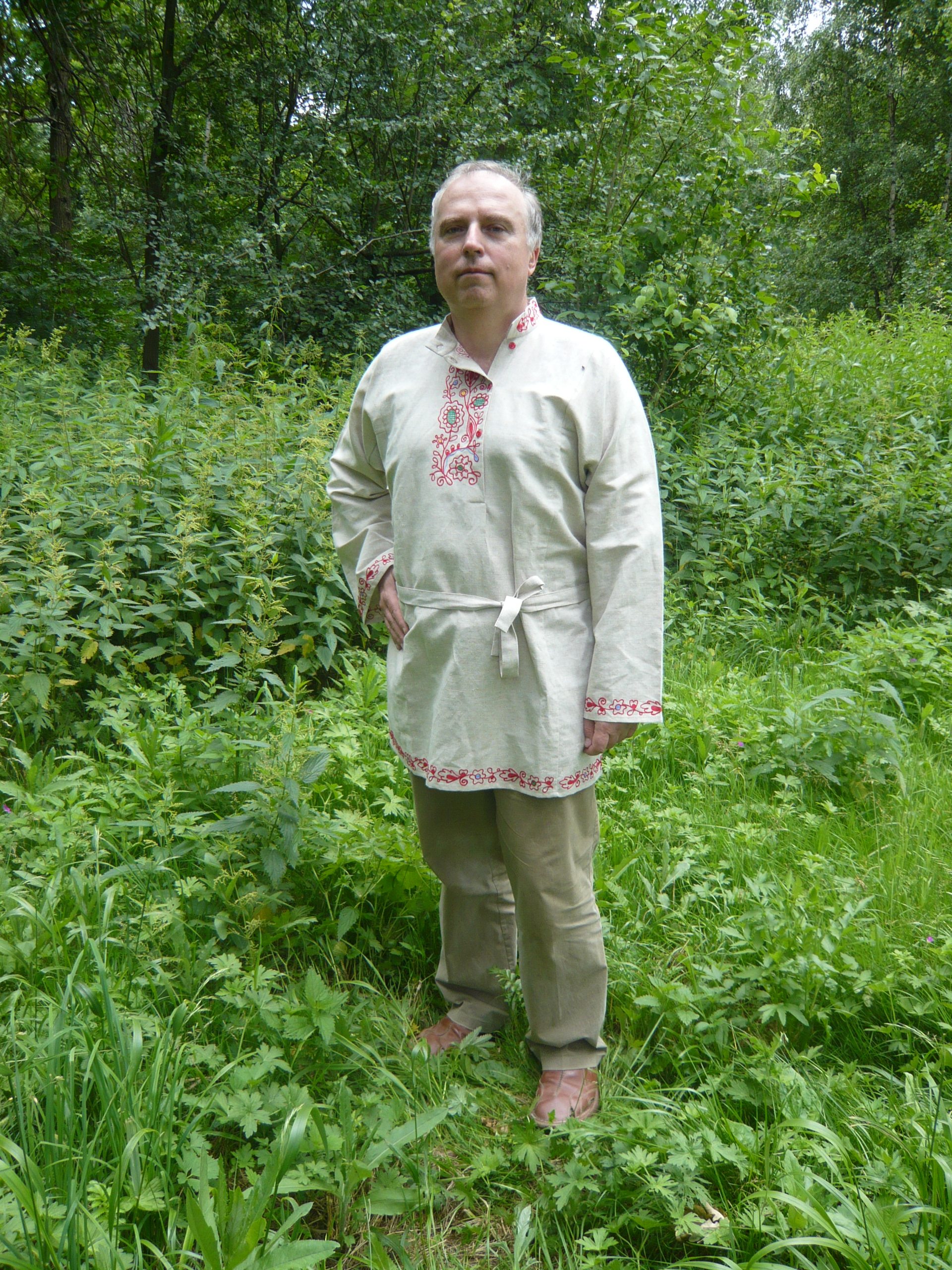 This is russianmen national clothes